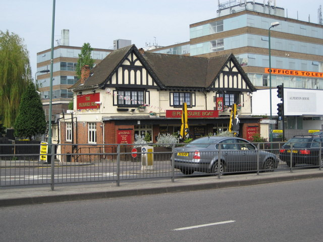 Alperton: The Pleasure Boat public house The pub owes its name to its proximity to the Paddington Arm of the Grand Union Canal, which is just out of the picture to the left. The road in front is the Ealing Road.